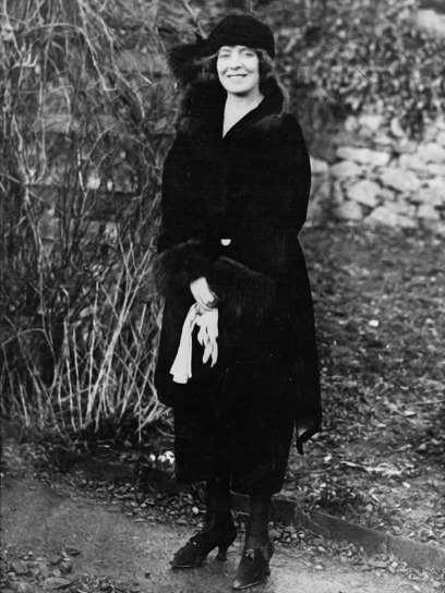 Kitty Kiernan, lover of Harry Boland and Michael Collins.